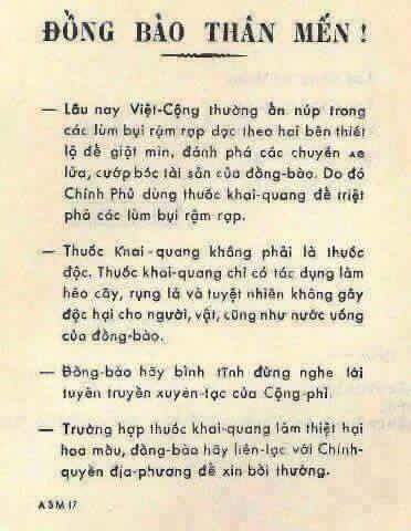 ARVN propaganda document